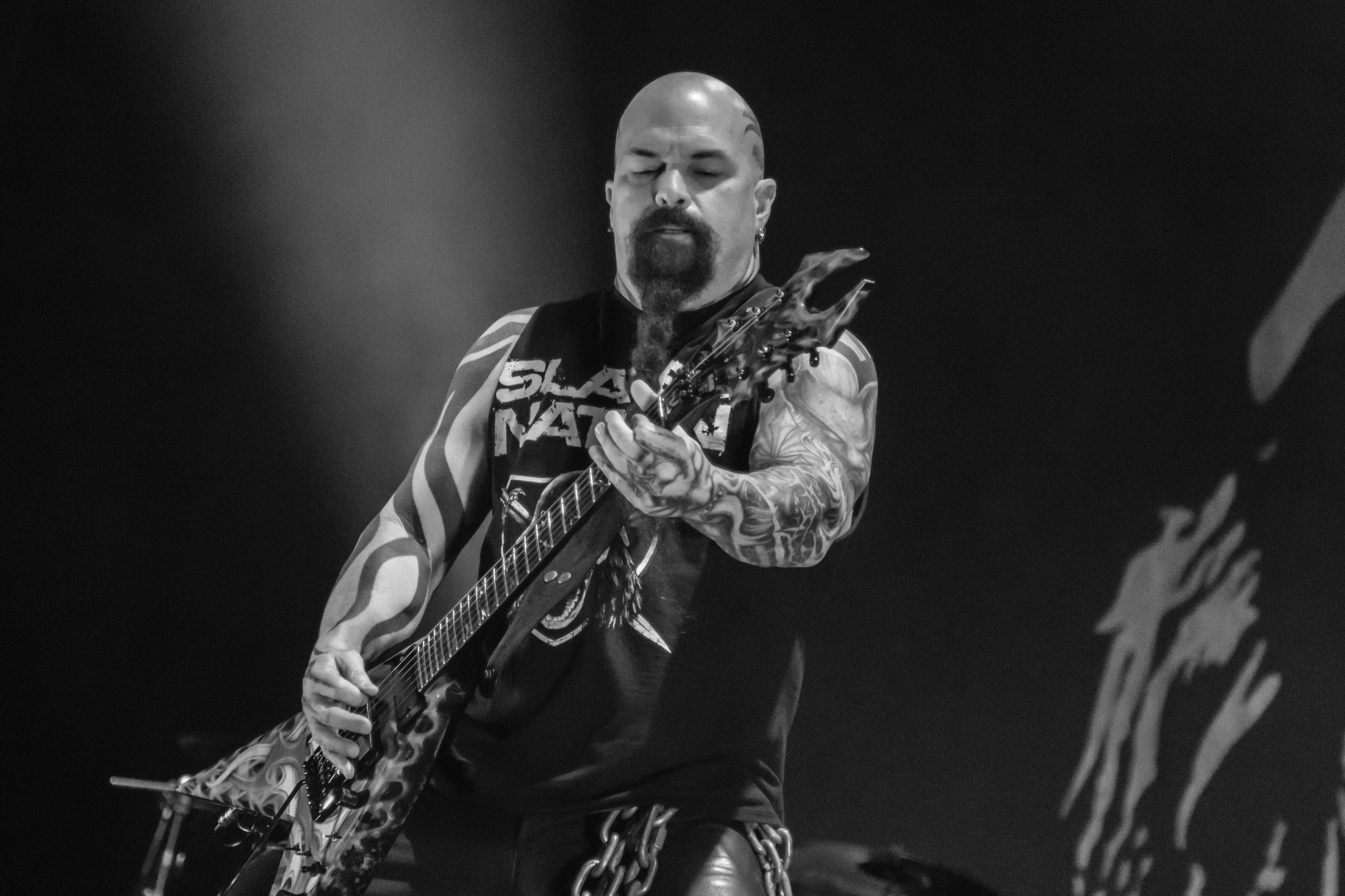 Kerry King from Slayer at the See-Rock Festival 2014